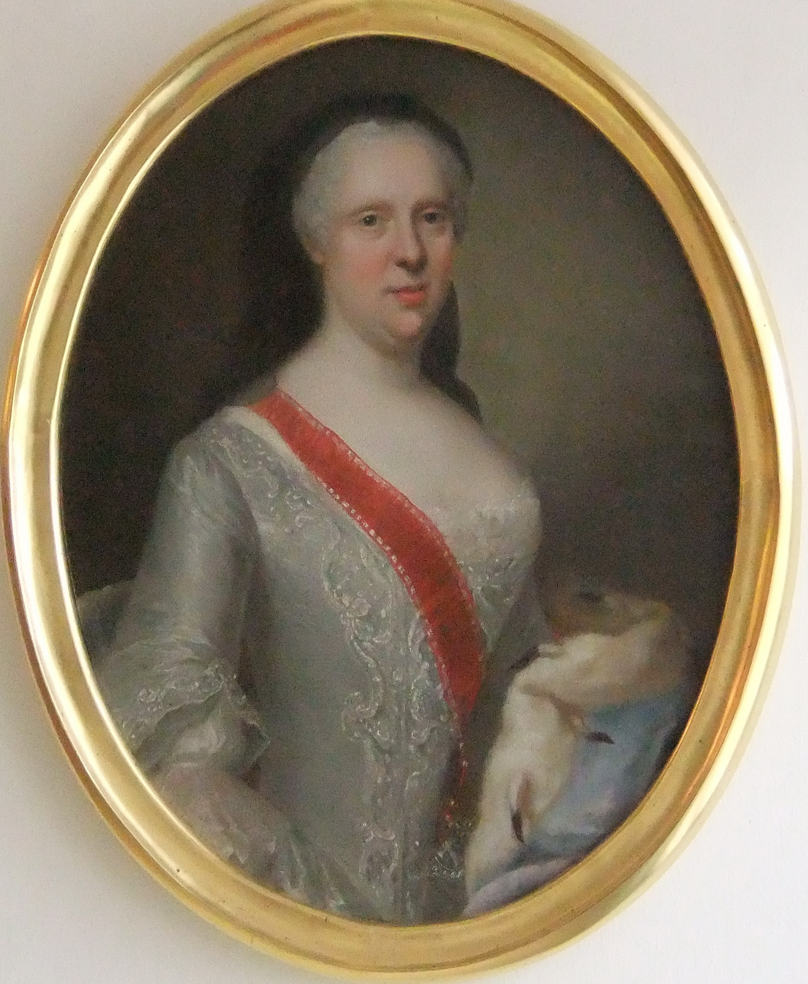 Portrait of Margravine Albertina Frederica of Baden-Durlach (1682-1755), wife of Christian August of Holstein-Gottorp